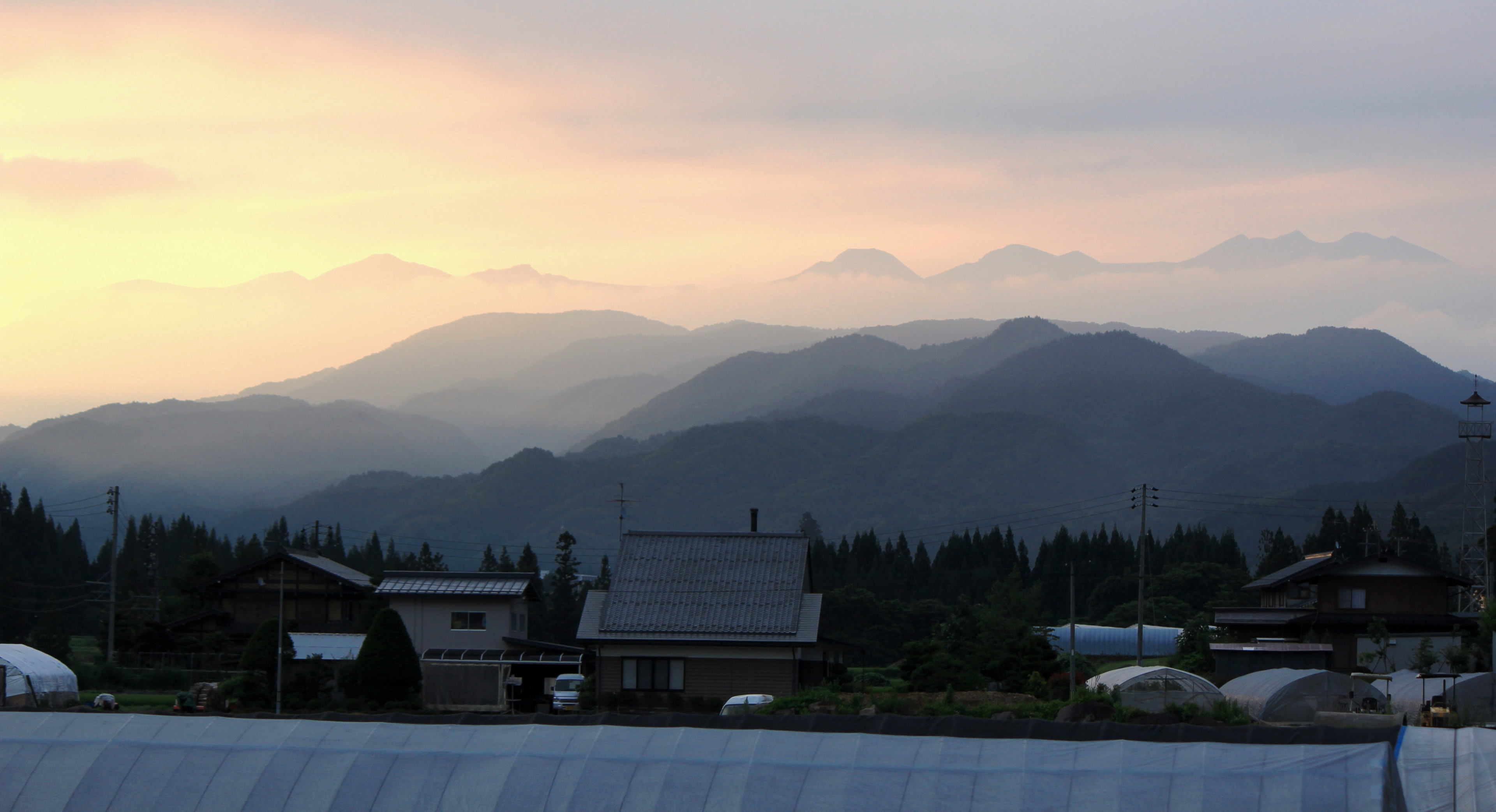 Mount Norikura on clouds seen from Takayama, Gifu pref., Japan.